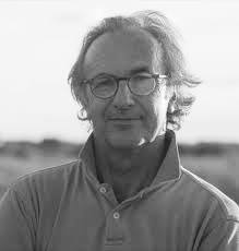 Jean–Michel-Voge profile picture